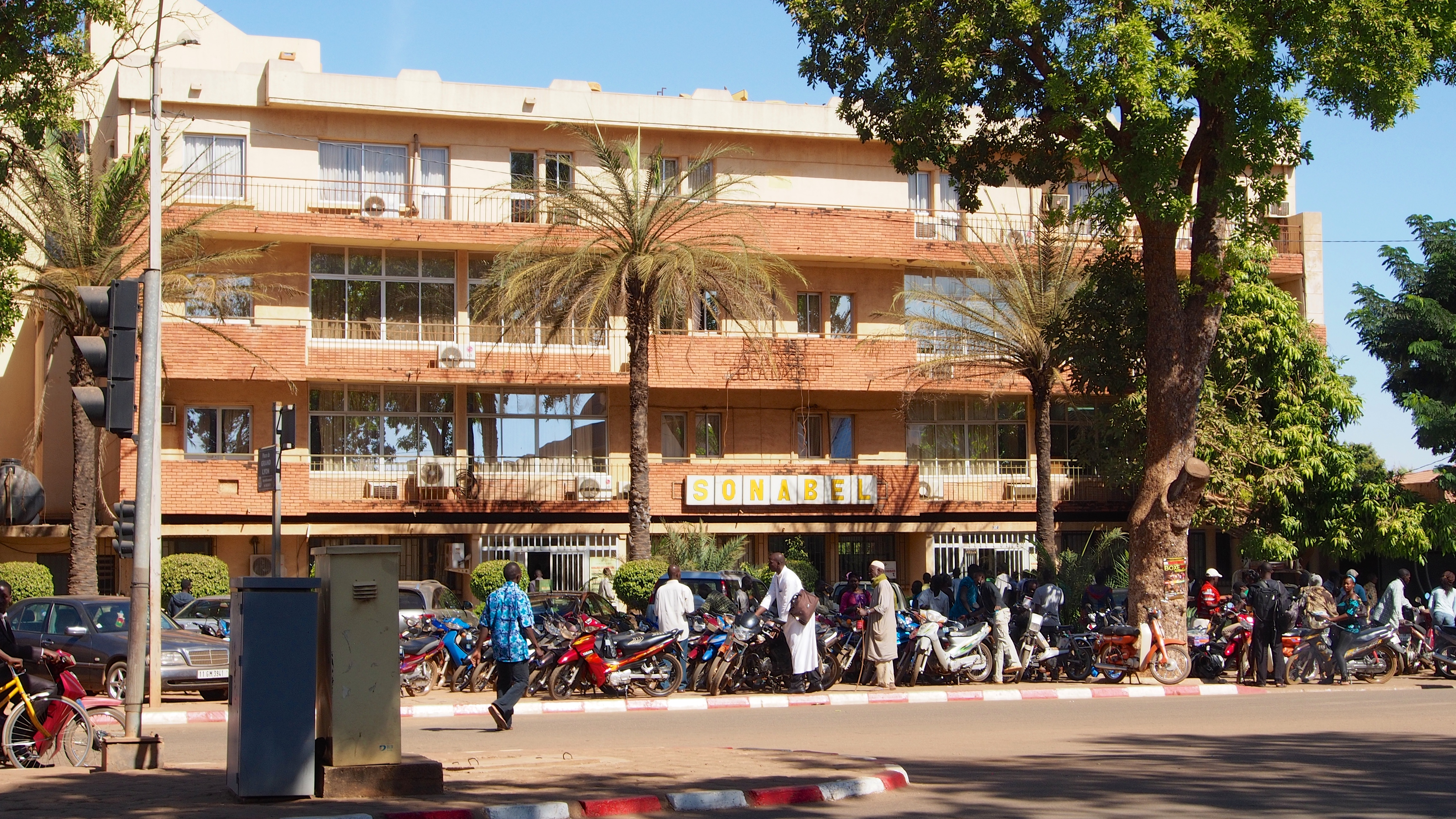 Headquarters of SONABEL, the national electricity company of Burkina Faso, downtown Ouagadougou.